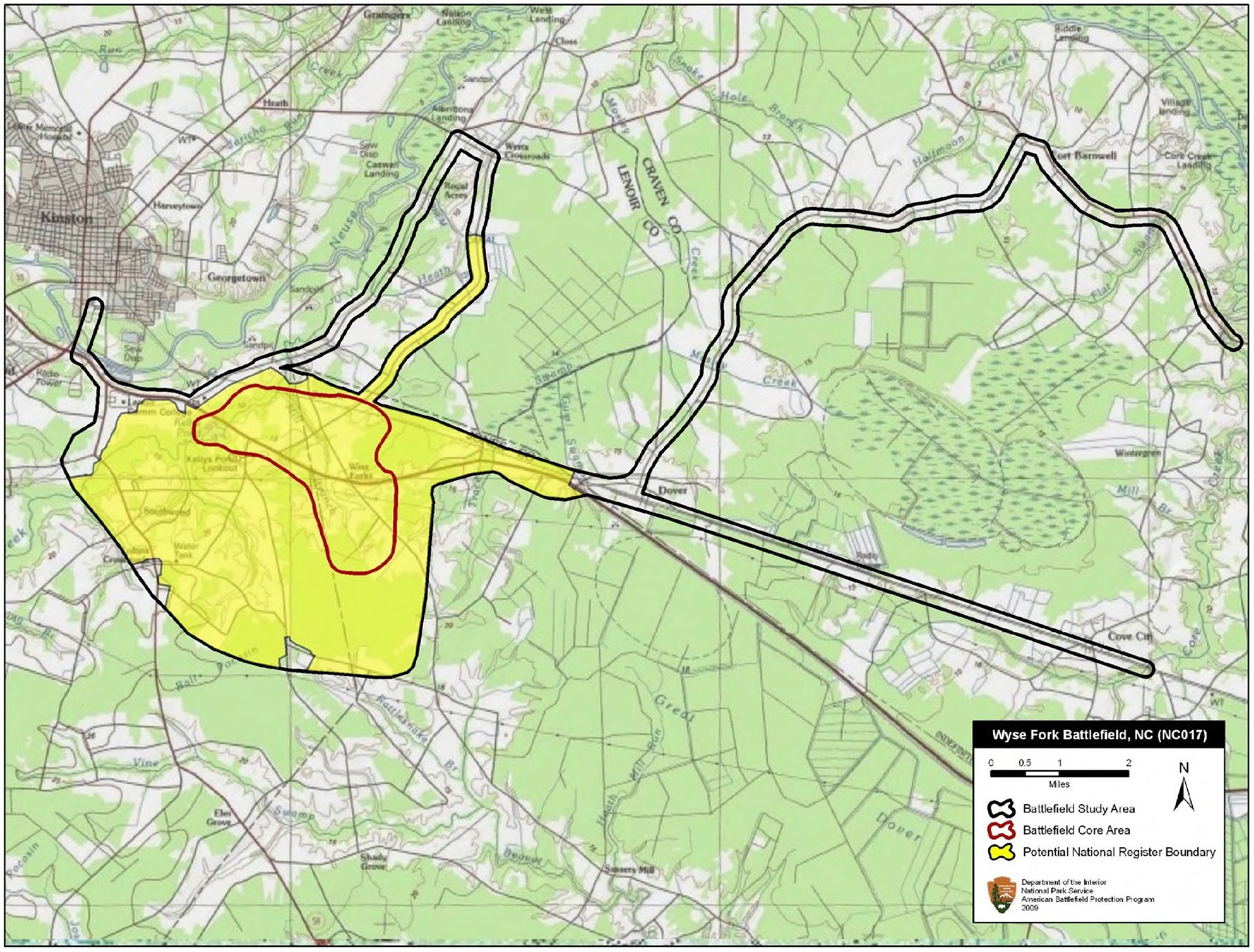 Map of battlefield core and study areas. The Study Area encompasses the separate Federal routes of advance, the Confederate route of advance, and the areas of flank attacks made by both forces. The western edge of the Core Area was adjusted to include the location of an additional Confederate battery.